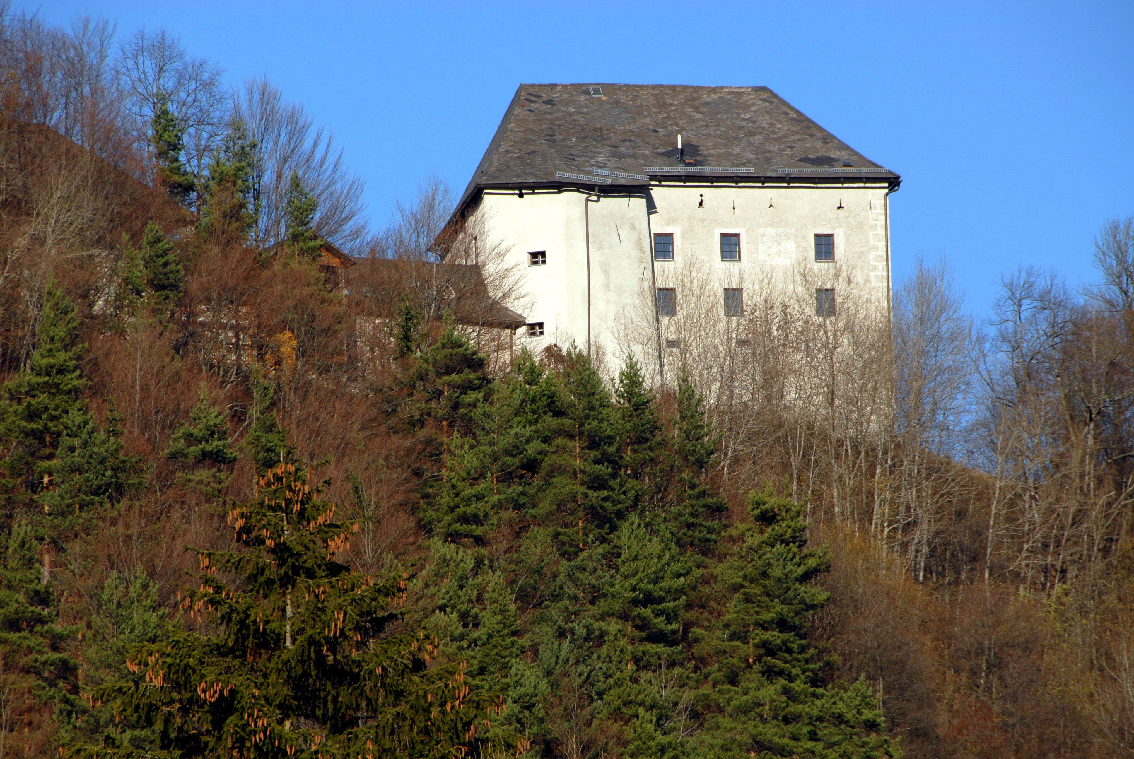 Castle and commendery at Rechberg #1, municipality Eisenkappel-Vellach, district Voelkermarkt, Carinthia / Austria / EU